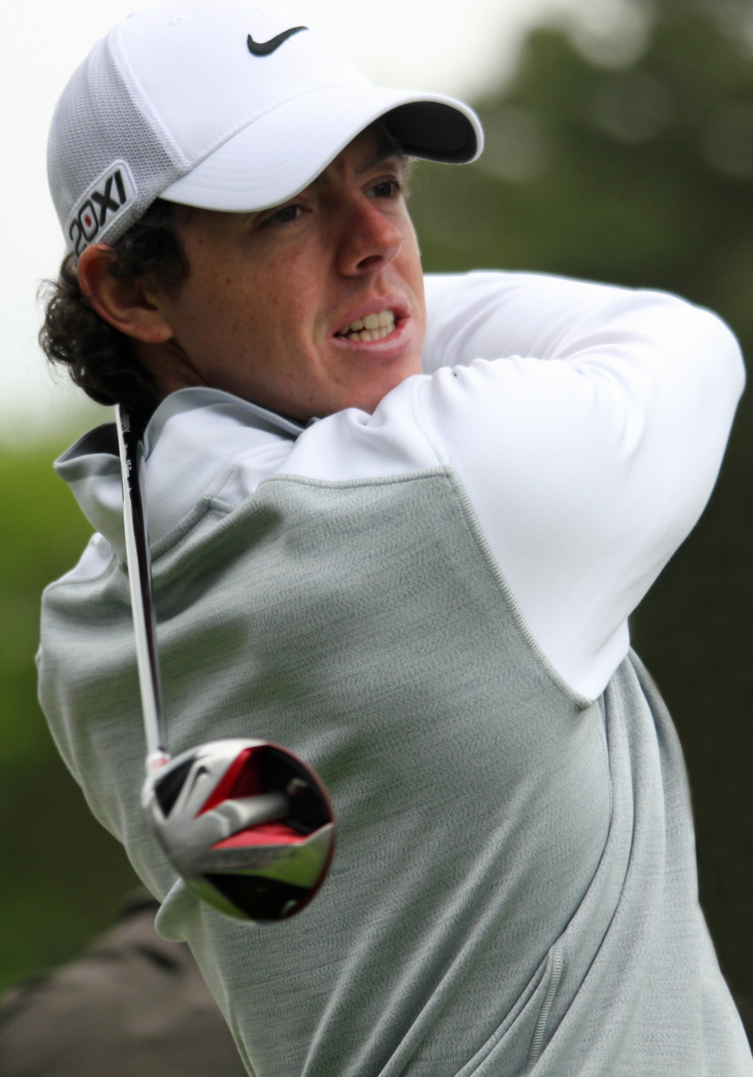 Rory McIlroy drives during a practice day for the 2013 BMW PGA Championship at Wentworth Club.